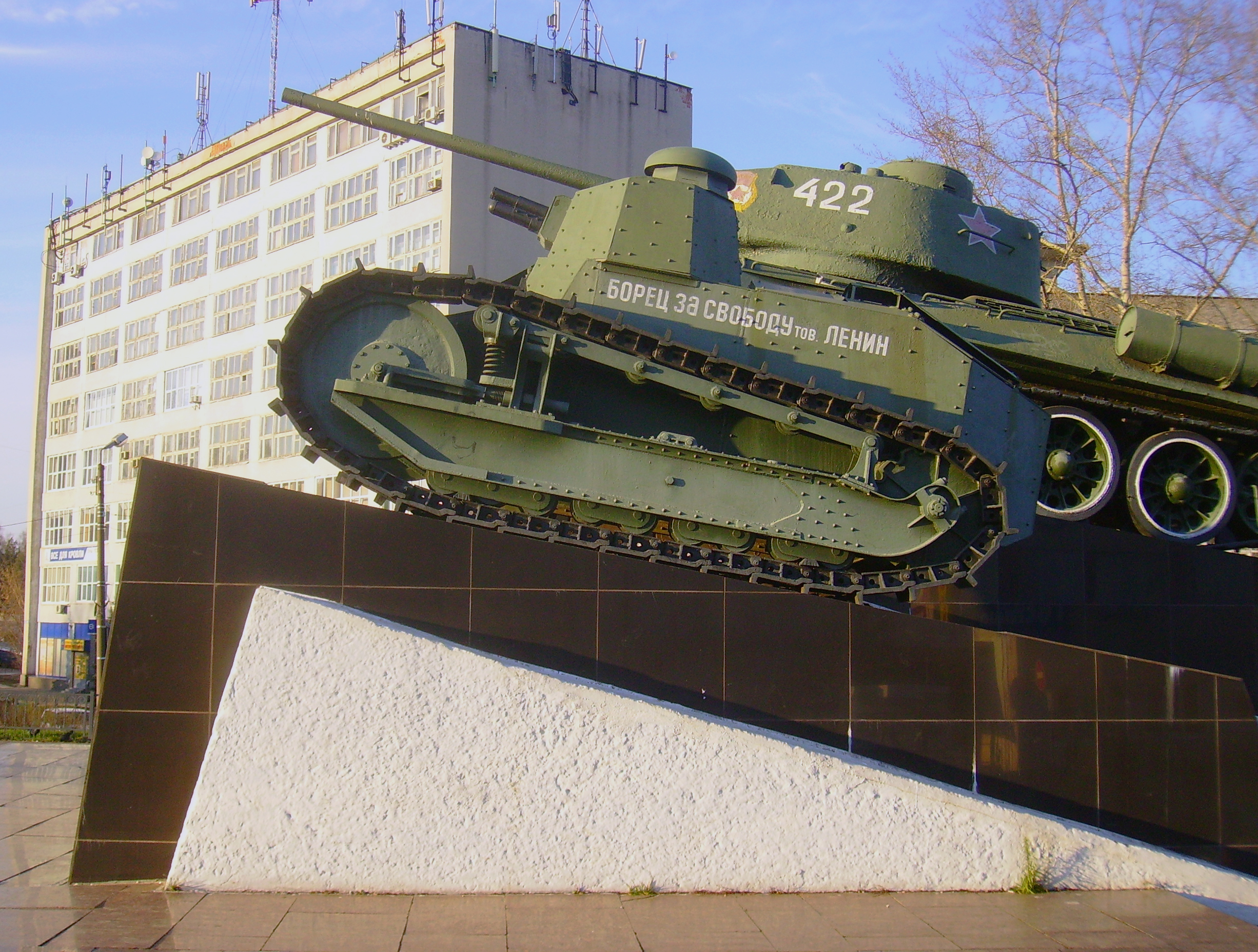 Copy of first Soviet tank "Freedom Fighter Comrade Lenin" ("Russkiy Reno") in Nizhny Novgorod. This tank was a variation French Renault FT tank.